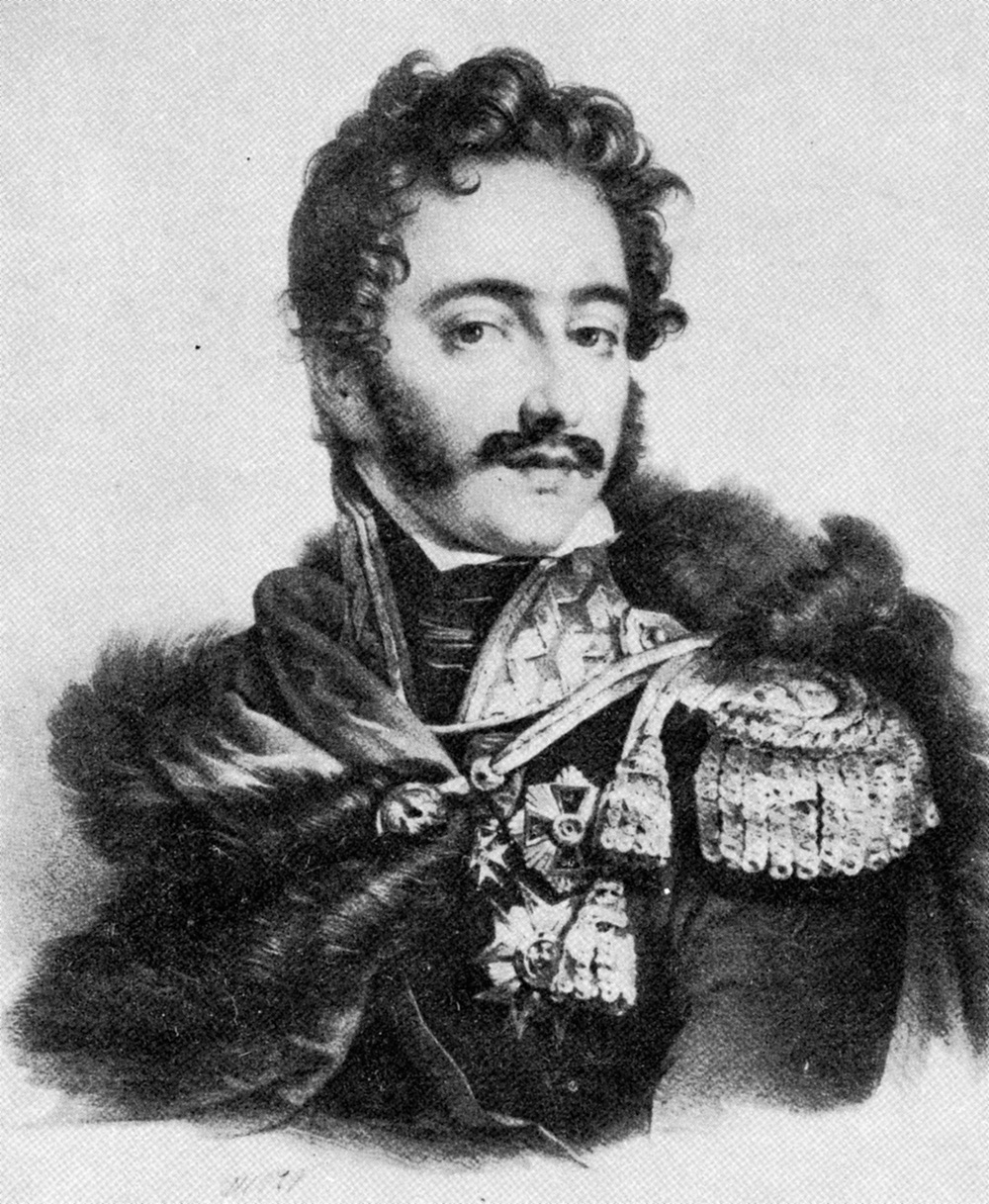 Prince Joseph Poniatowski - Litography after drawing of general Maurin